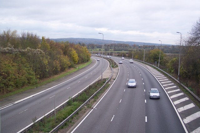 M26 Motorway heading towards Junction 5 Seen from a bridge to a farm.